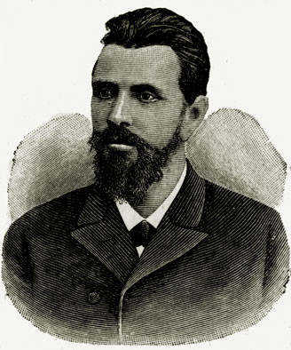 Mikhail Aleksandrovich Menzbier (1855-1935)